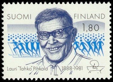 Postage stamp depicting the famous Finnish sportsman Lauri "Tahko" Pihkala